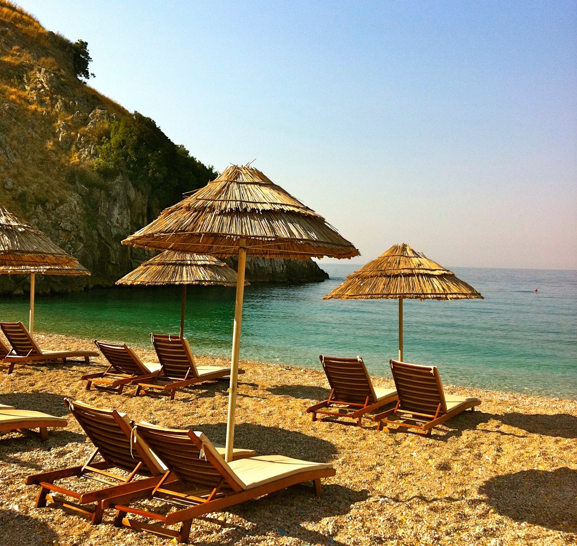 Beach in Himarë